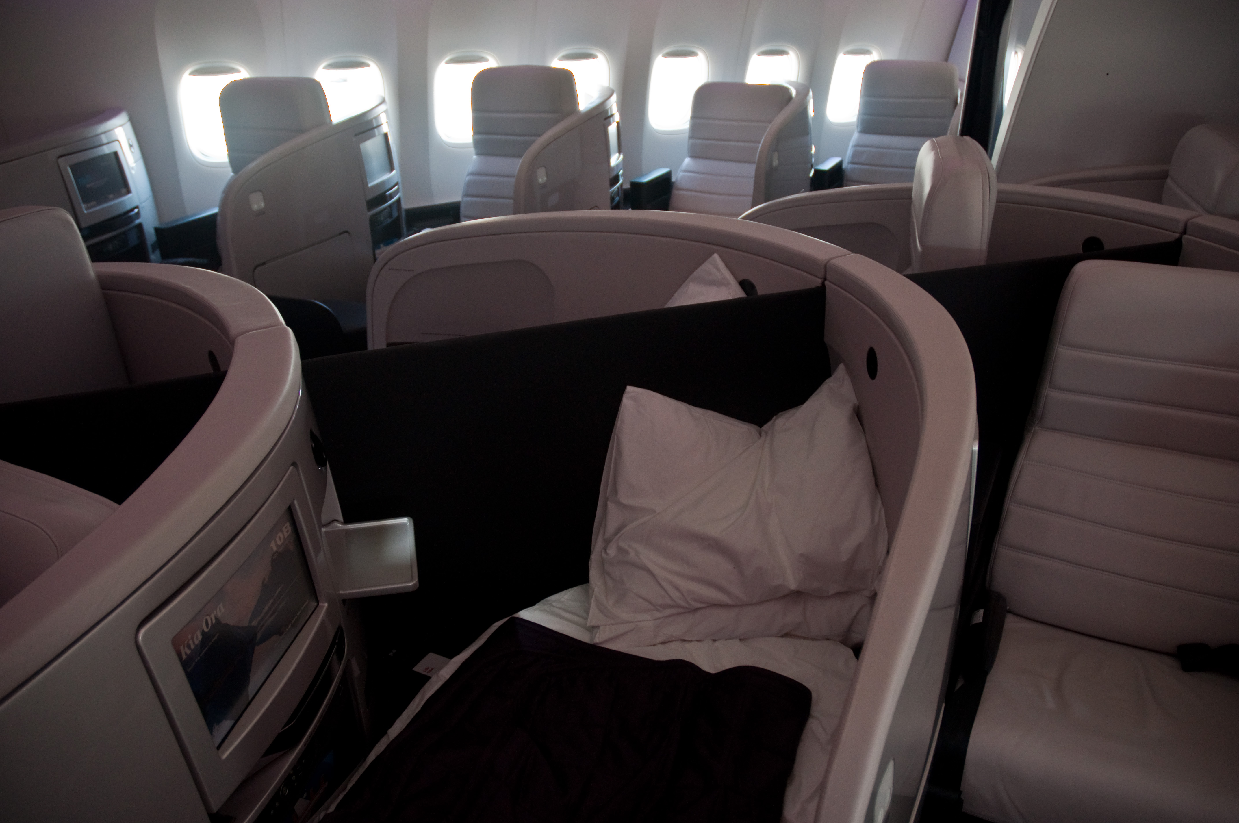 The differences here are tweaks - but significant ones: 1. The overall appearance and decor is much 'cleaner'; 2. Bigger IFE screen: 3. The table slides closer to you (this is a big improvement in my view); 4. Full size pillows! Yay! 5. More easily accessible seat controls and jack plugs. But the biggest change is to an on demand and cook when you order meal service.